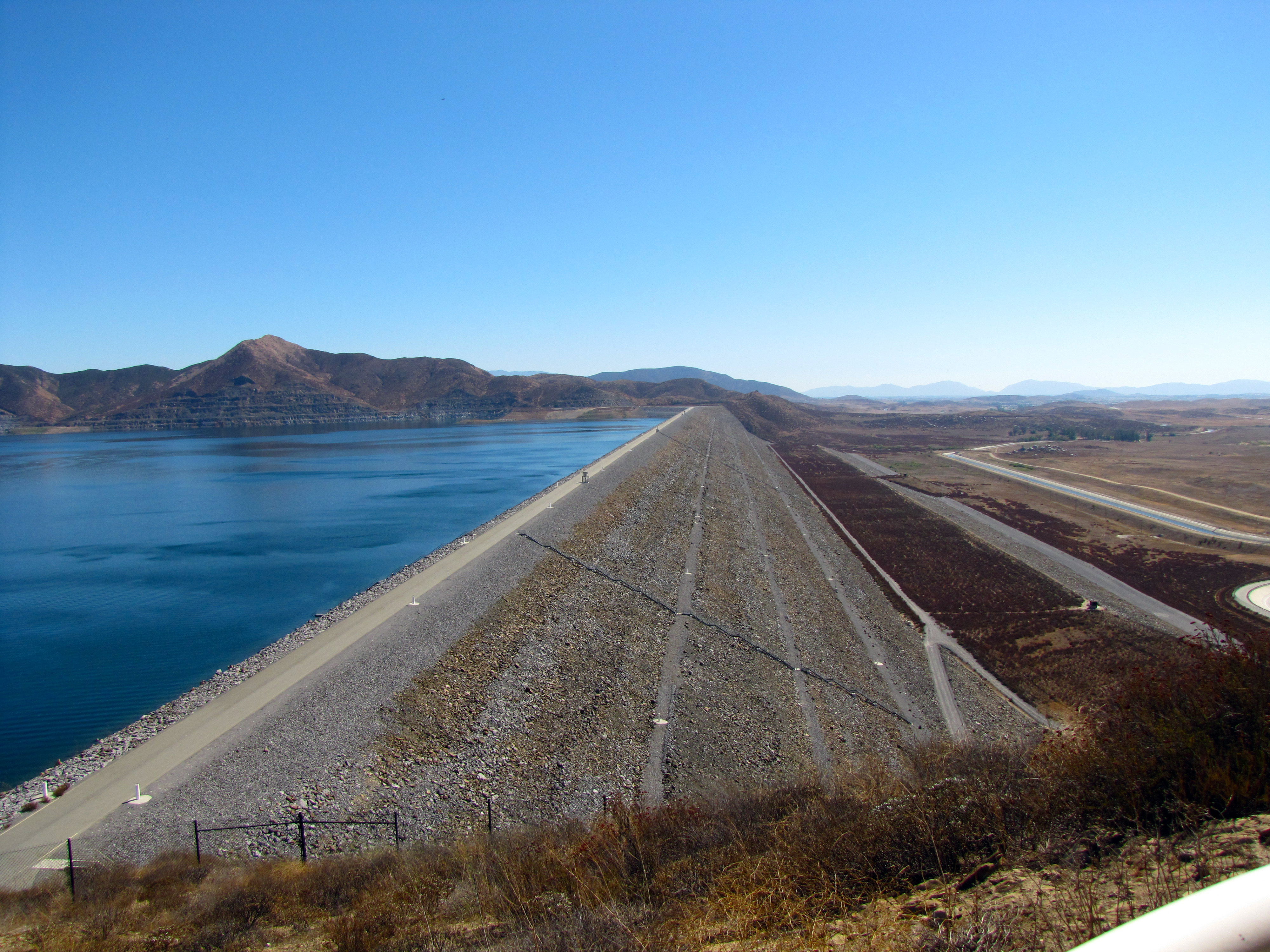 The west dam at Diamond Valley Lake — an off-stream reservoir located southwest of Hemet in Riverside County, California.